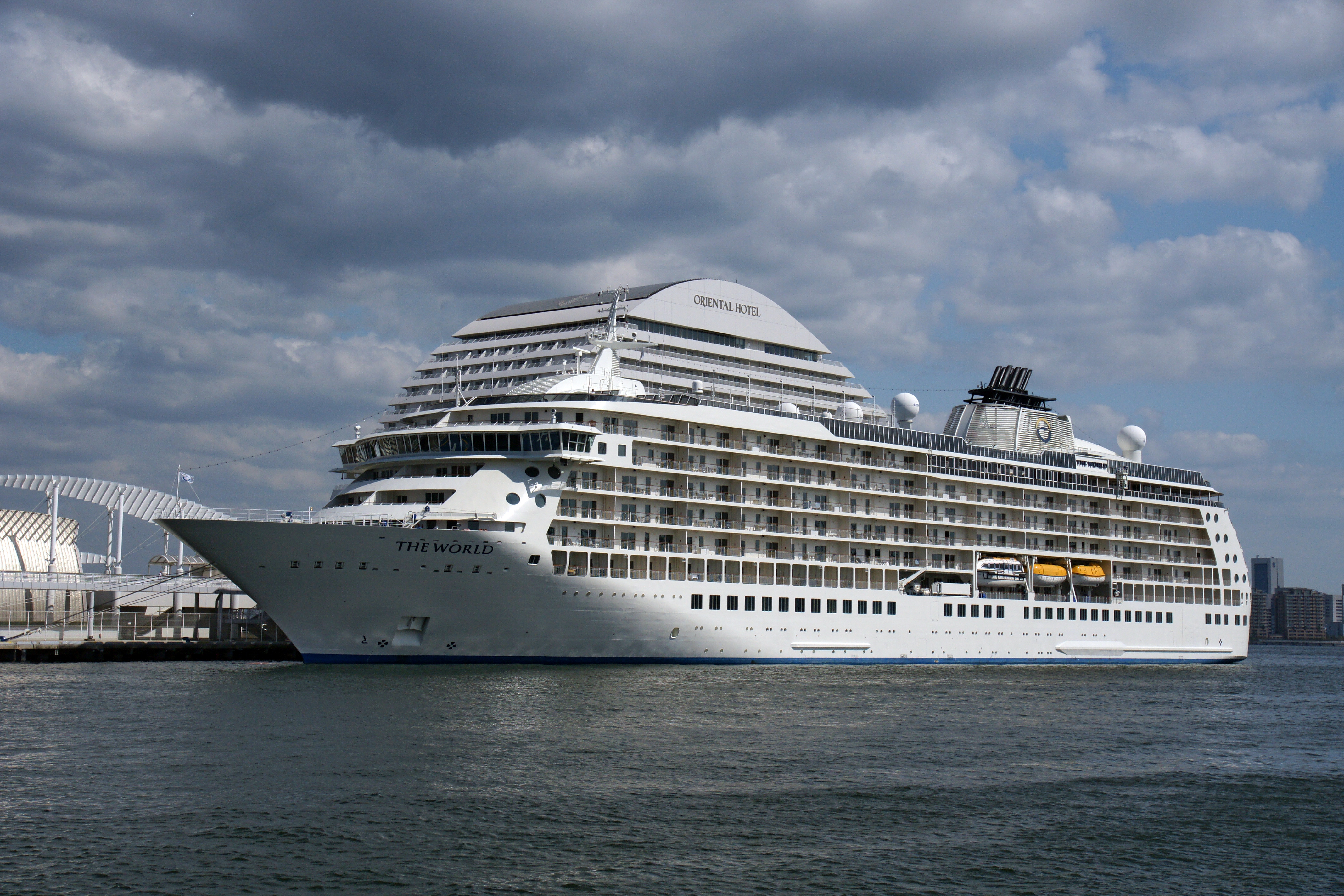 "The World" who anchors at the wharf "Nakatottei" of the Kobe harbor (Kobe, Hyogo prefecture, Japan)